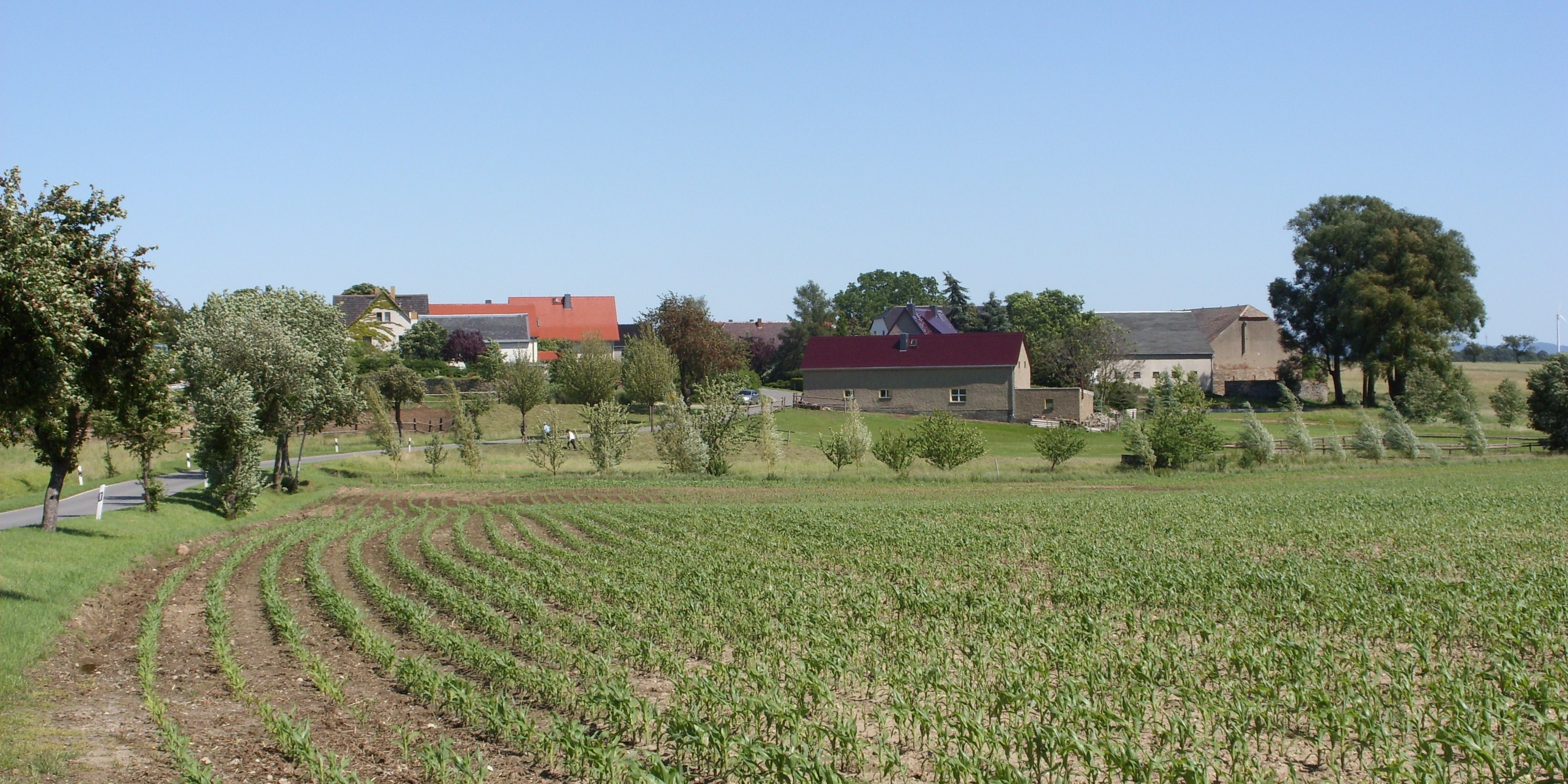 The village of Dürrwicknitz/Wěteńca, Bautzen district.